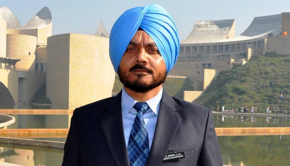 G.K.Singh at the inauguration of Virasaat-e-Khalsa,c.2012